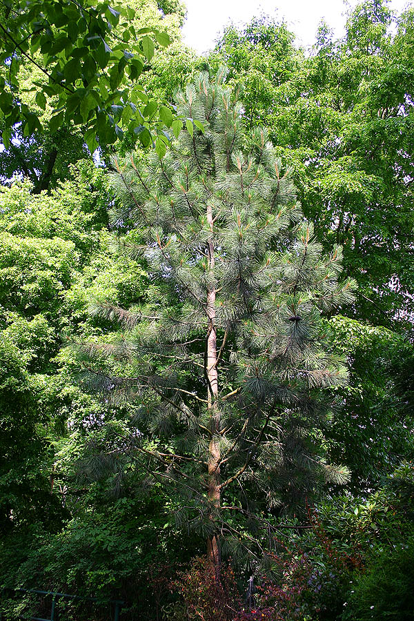 Young Monterey Pine at Germany.